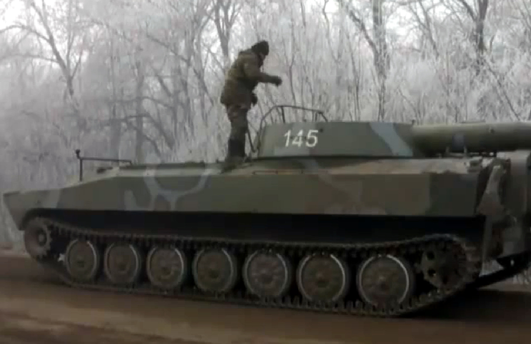 Ukrainian hardware near Debaltseve, February 2015.